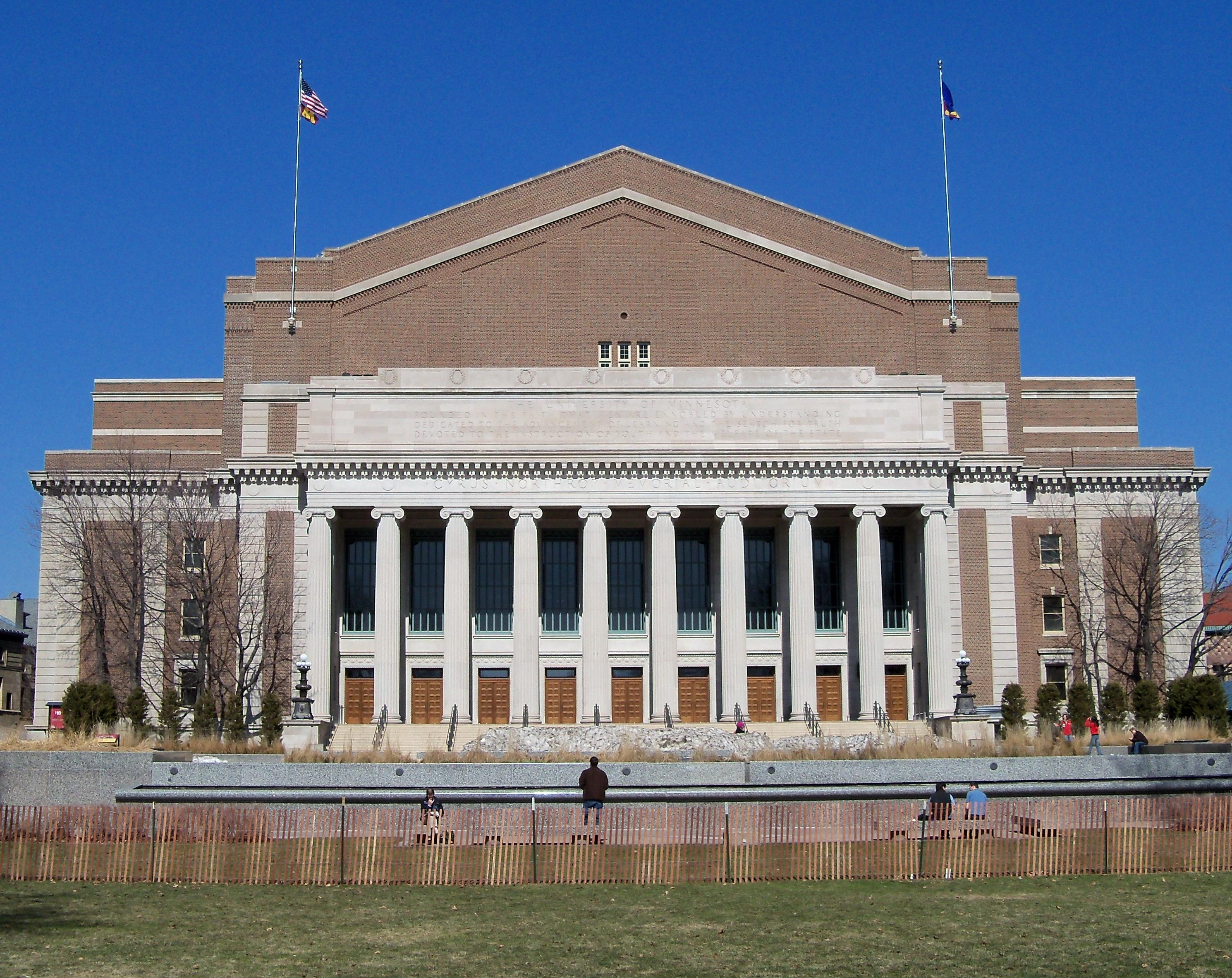 Northrop Auditorium at the University of Minnesota-Twin Cities. Located on the East Bank of the Minneapolis campus.